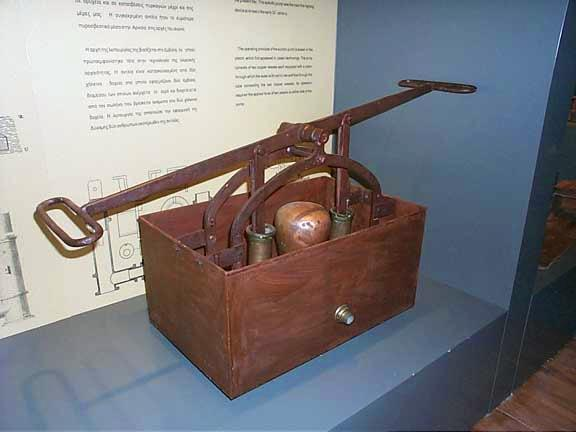 200 years old Fire Engine of Arnaia, image from the History and Folklore Museum, Arnaia, Central Macedonia, Greece